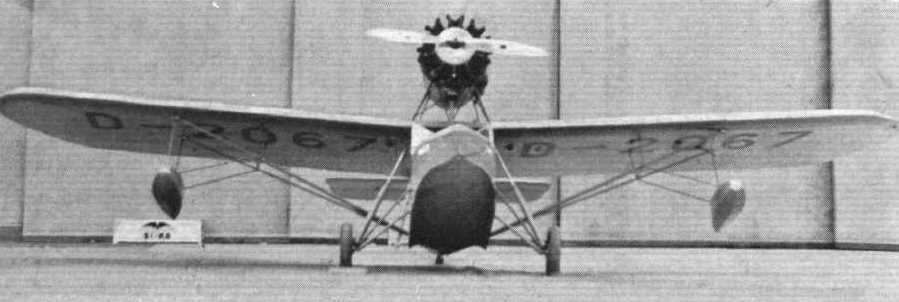 Front view of Heinkel HE 57 at Stockholm International Aero Show 1931 (from Flight 1931-05-29, pag.472).